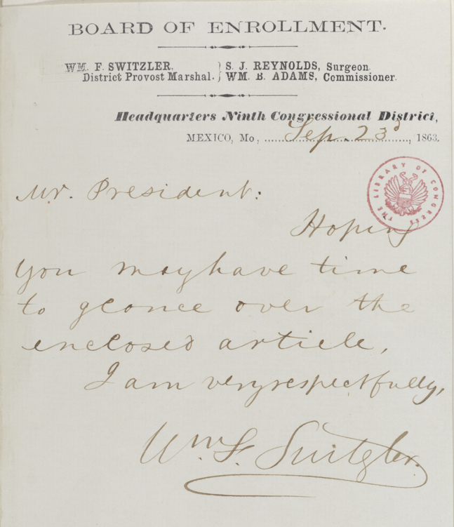 Abraham Lincoln papers: Series 1. General Correspondence. 1833-1916: William F. Switzler to Abraham Lincoln, Wednesday, September 23, 1863 (Sends newspaper clipping)